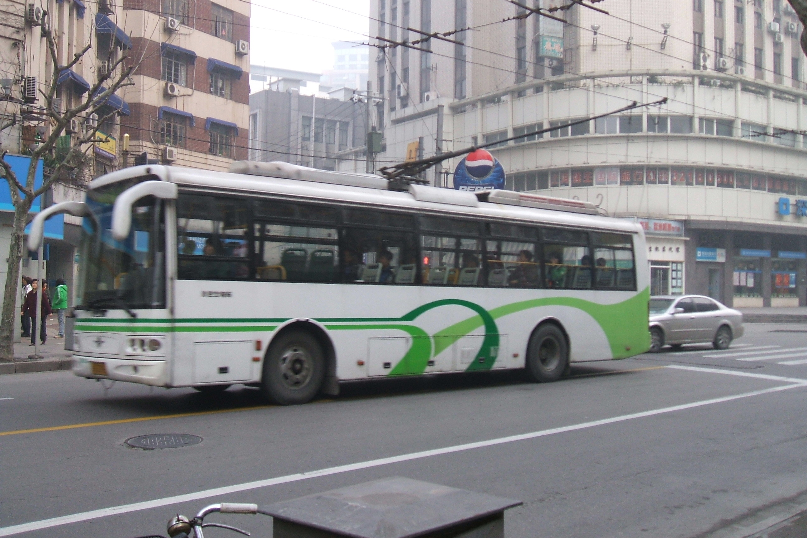 Shanghai trolley bus (2007/02/10) 上海のトロリーバス車両。 Source: self-photo